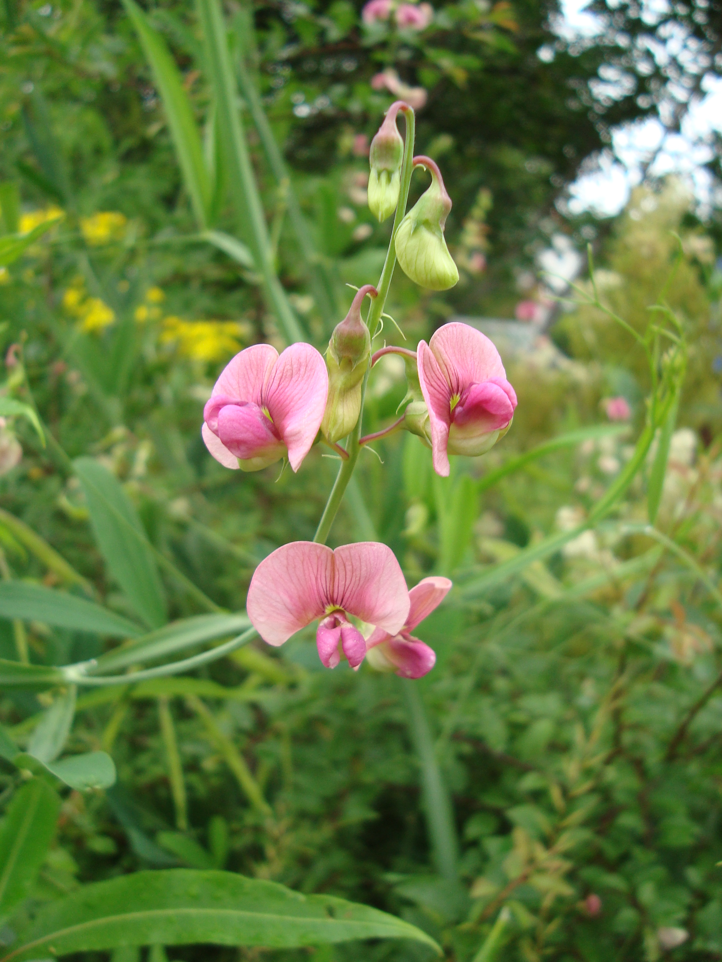 Lathyrus palustris in cultivation.